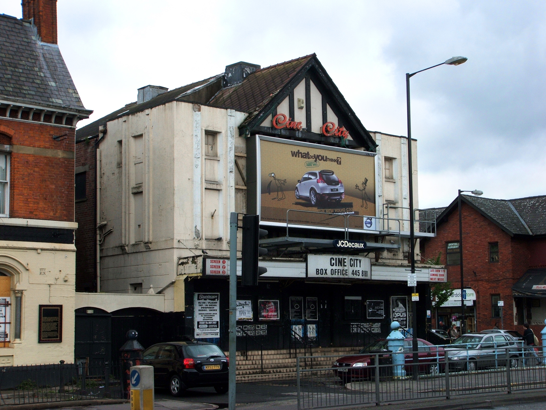 Cine CityCine City - Withington